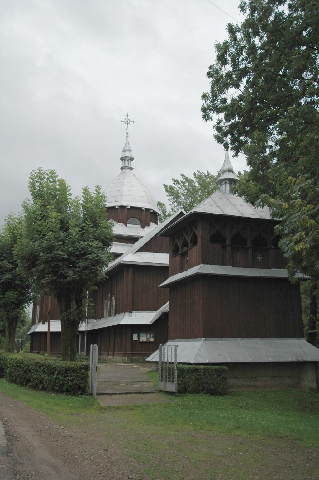 Poland, Kormanice - wooden church.